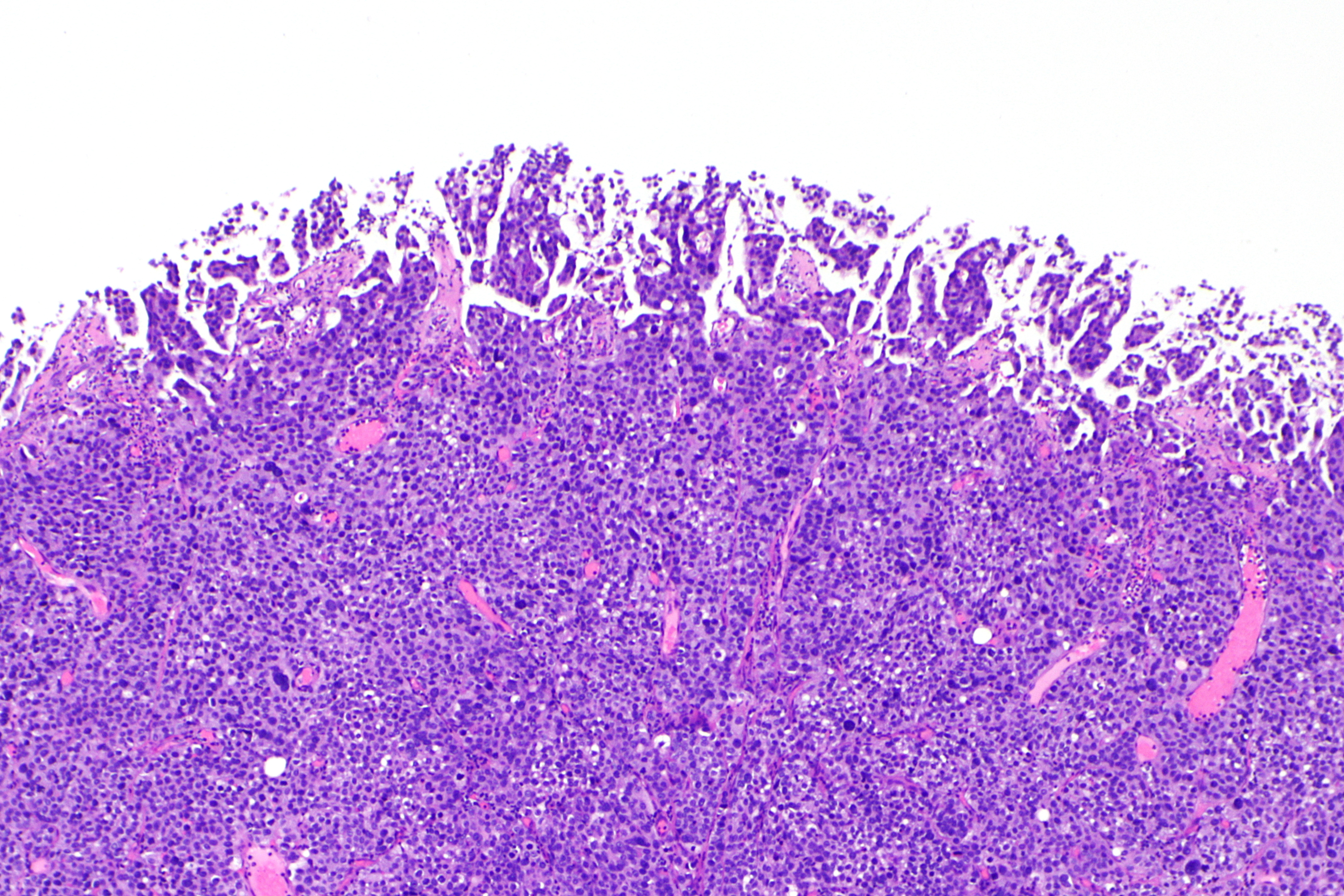 Micrograph showing micropapillary urothelial carcinoma (also urothelial cell carcinoma, micropapillary variant). H&E stain. Related images MP UC - low mag. MP UC - intermed. mag. MP UC - intermed. mag. MP UC - high mag. MP UC - high mag.